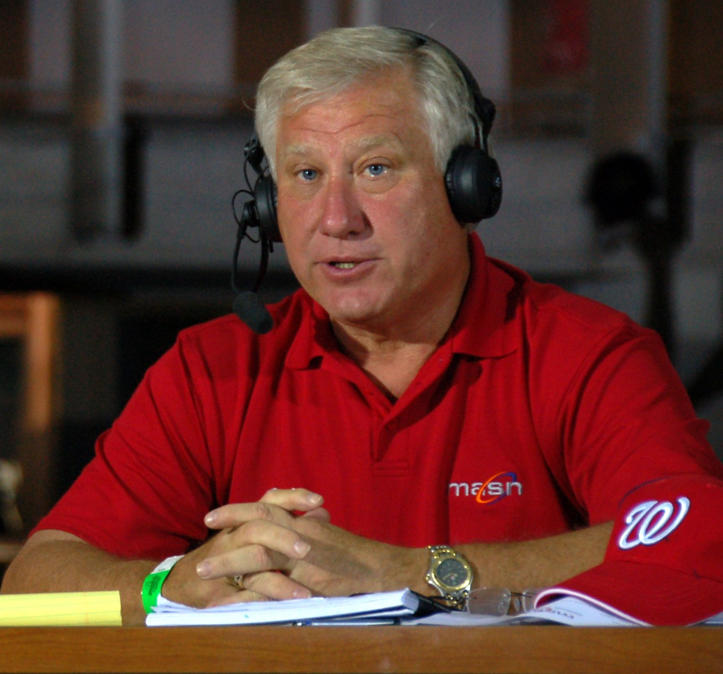 Source: Flickr - Nats Extra with Johnny Holliday & Ray Knight * Author: Scott Ableman * License: Permission is granted by the author Scott Ableman to use this photo on Wikipedia under a CC-2.5. Any other use requires permission from the author and a link back to the author's flickr page. * Date taken: June 23, 2007 * Date uploaded: August 6, 2007